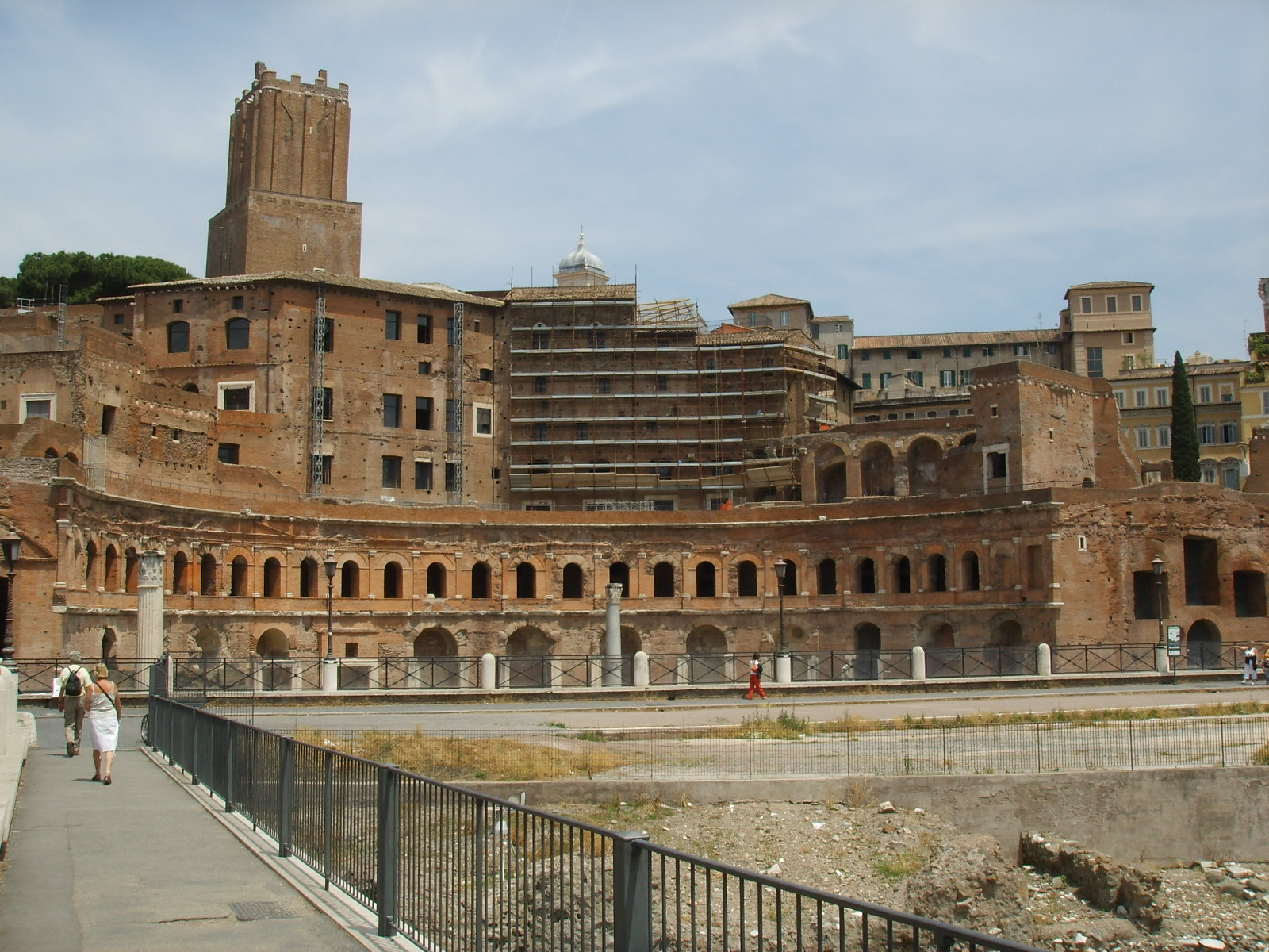 Traiano Markets, in Rome, Italy